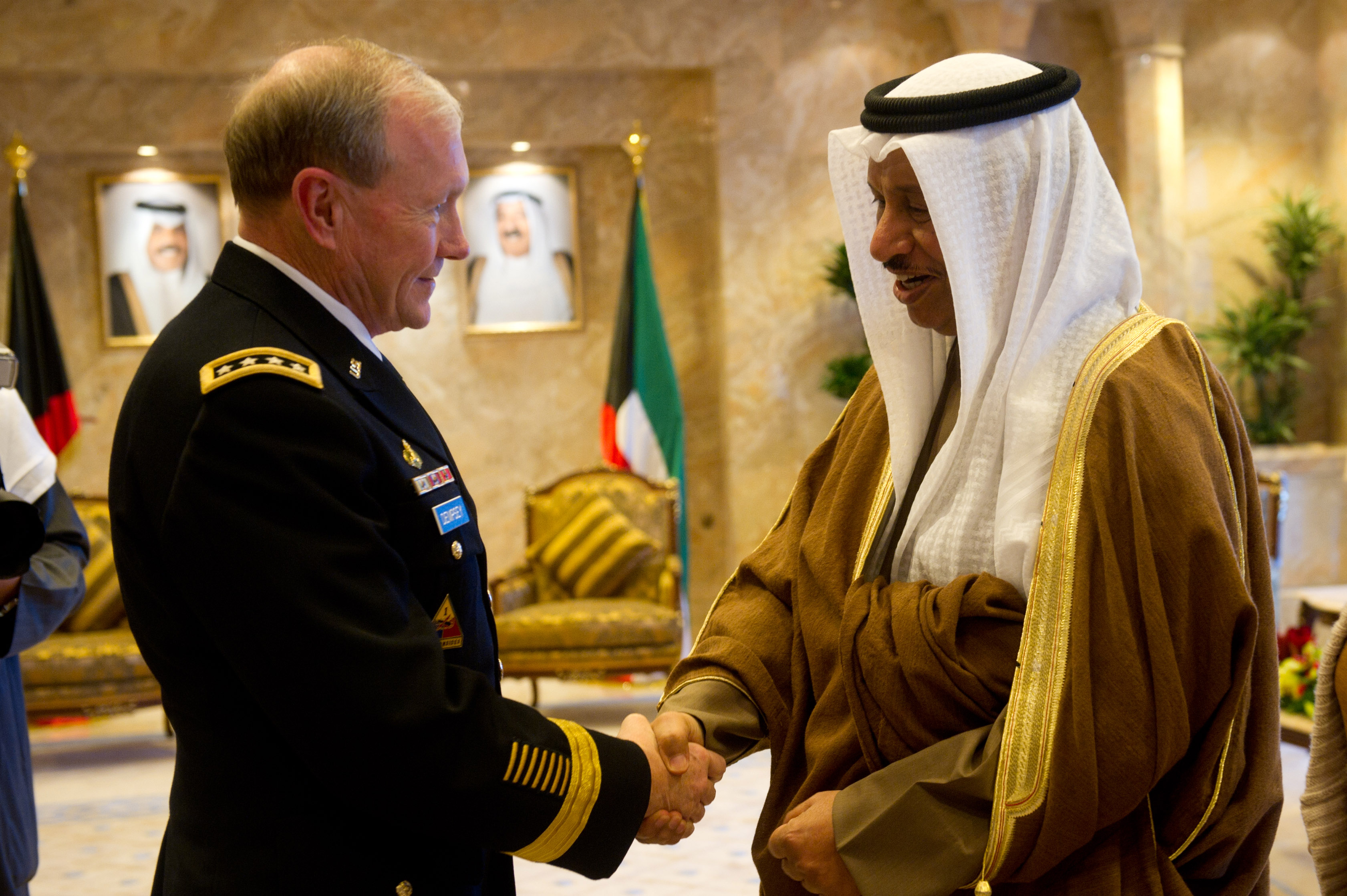 Kuwaiti Prime Minister Sheikh Jaber Mubarak Al-Sabah greets Chairman of the Joint Chiefs of Staff Gen. Martin E. Dempsey for a meeting in Kuwait City, Kuwait, on Dec. 14, 2011.